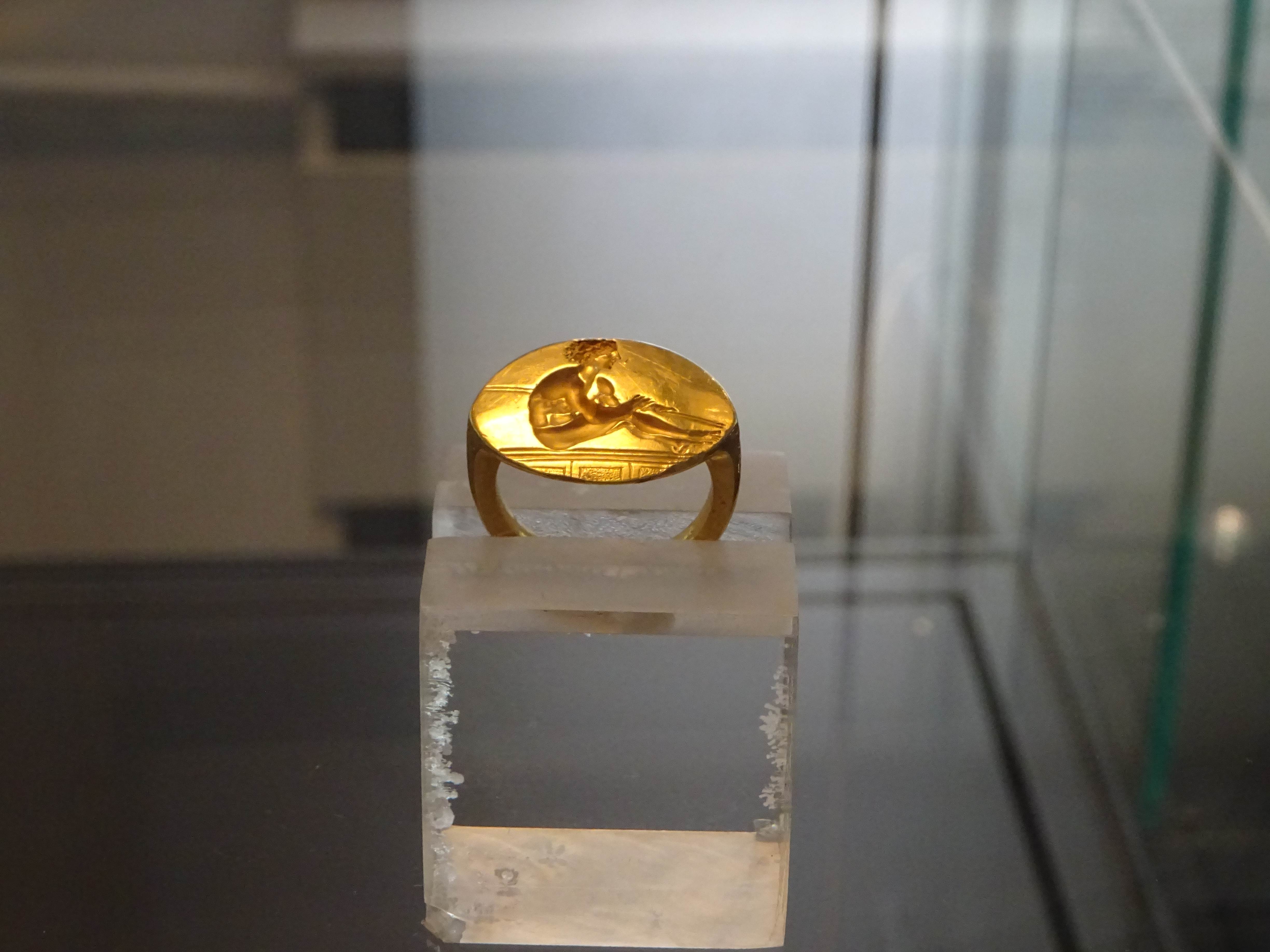 Funeral ring. Gold. Svetitsa Tumulus, Krun near Shipka, Stara Zagora region. End of 5th Century BC